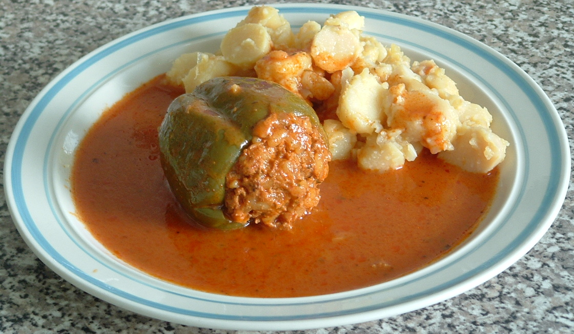 Punjena Parika & Potatoes